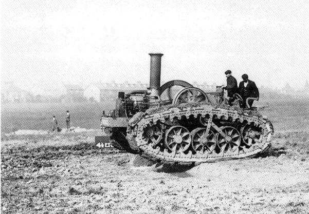 Richard Hornsby & Sons' tracked, paraffin-driven tractor.